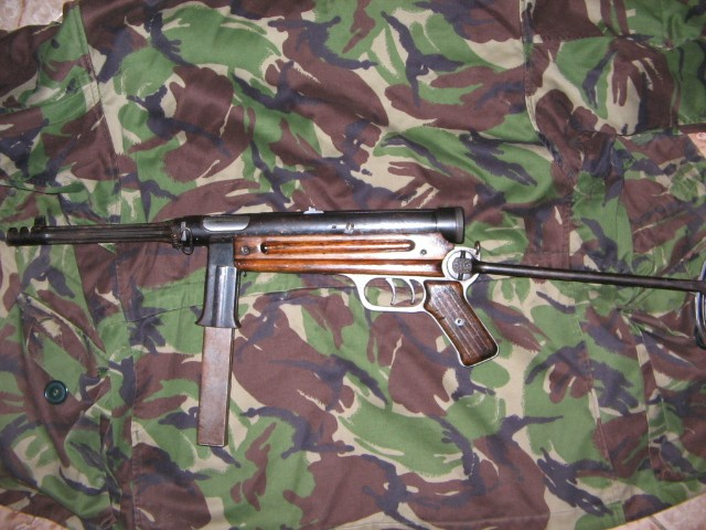 An Italian Beretta 38/43 submaschine gun